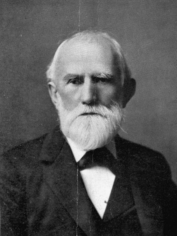 Portrait of Confederate Colonel George Washington Scott.